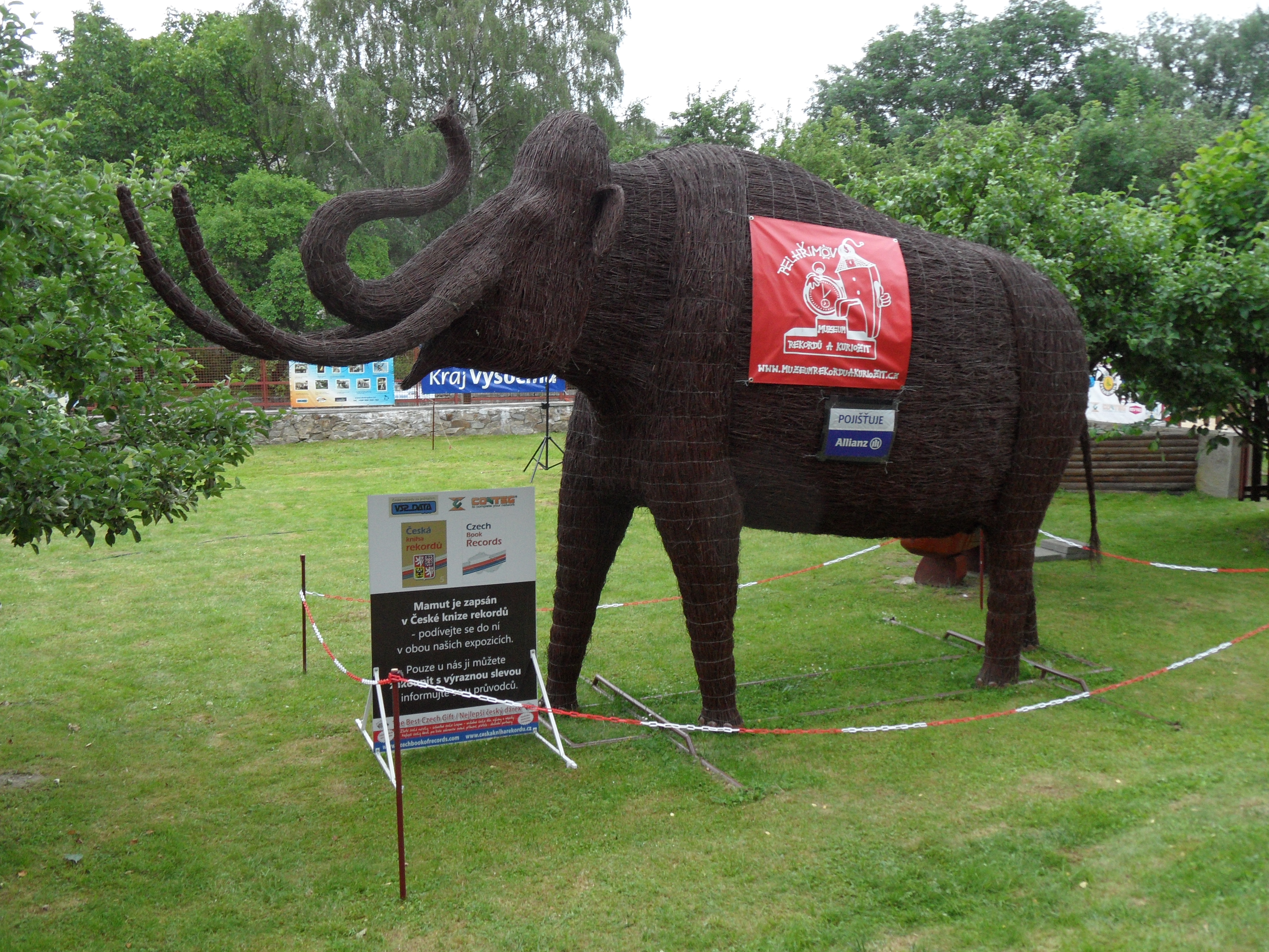 Pelhřimov: Garden of the Museum of Zlaté české ručičky. Mammoth in Real Size. Pelhřimov District, the Czech Republic.